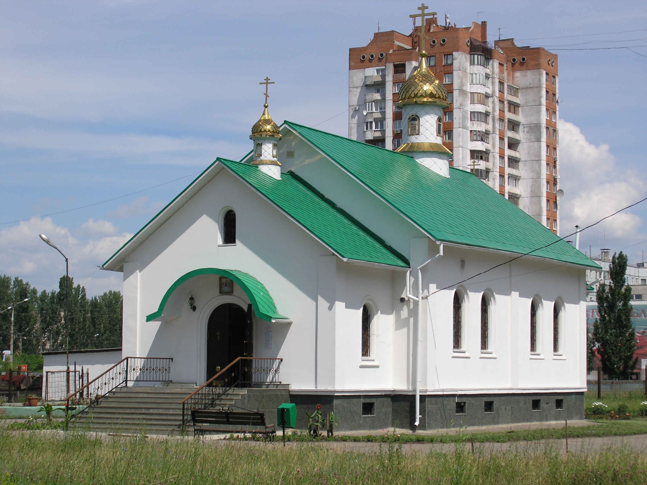 Church of Saint Trinity, Togliatti, Russia